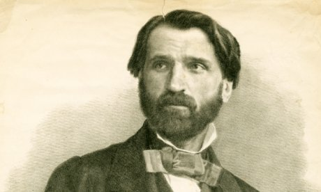 Verdi in 1842 at around the time of Attila